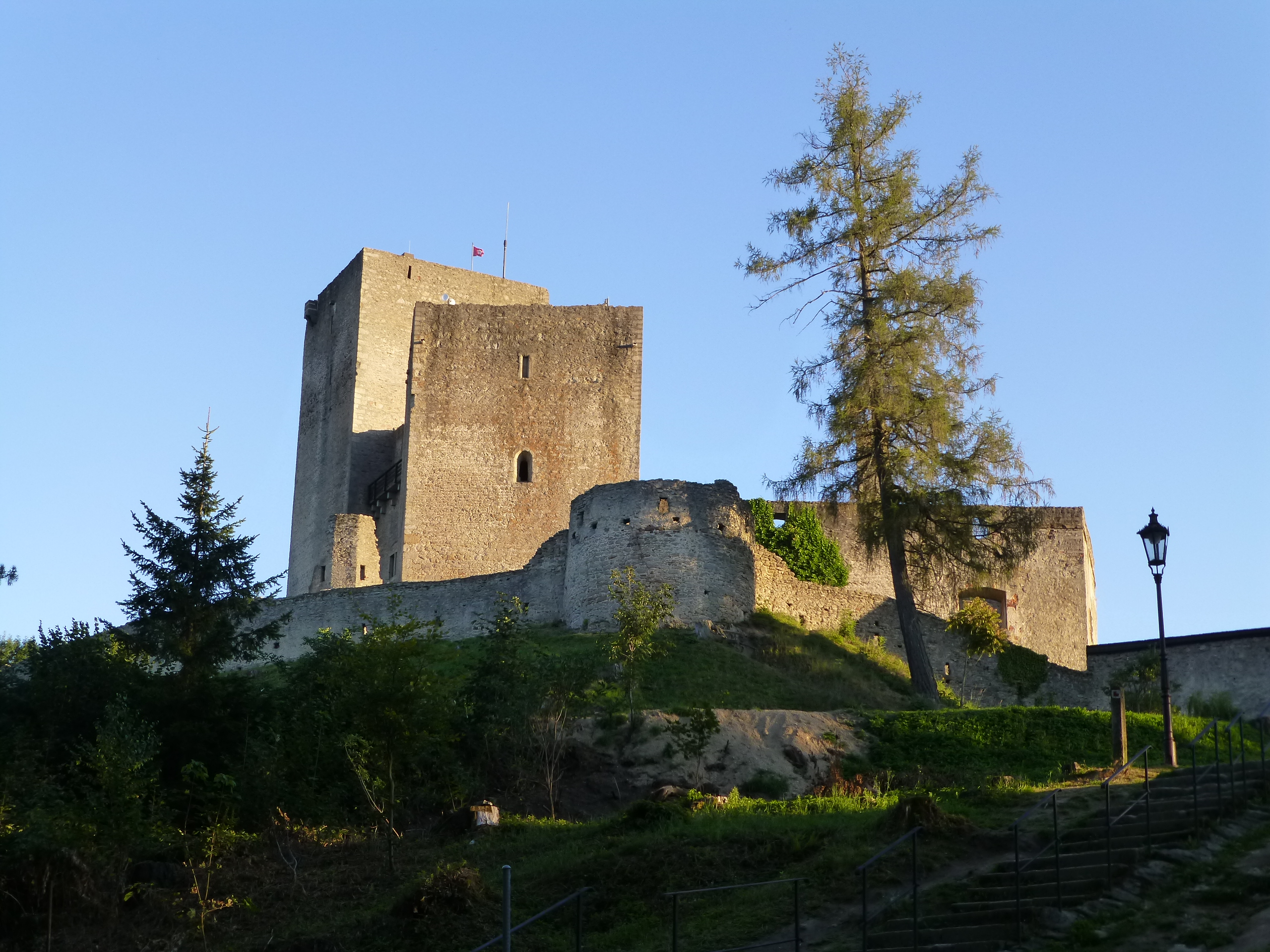 Landštejn Castle late evening light.